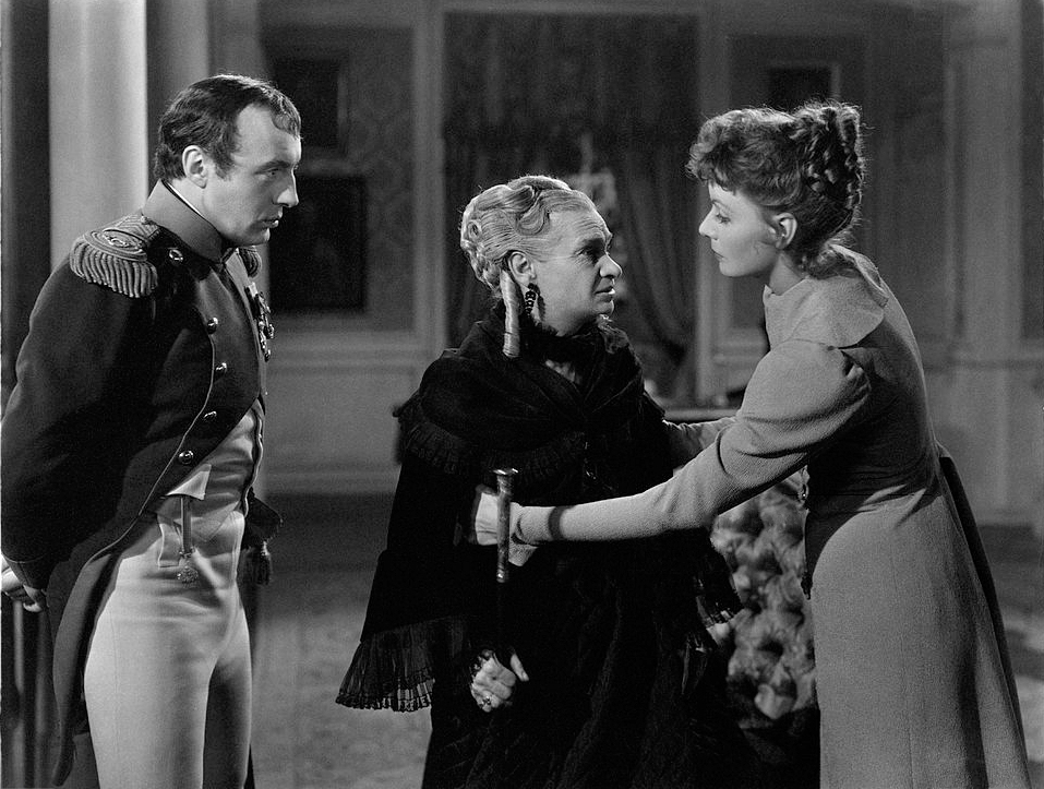 French-born American actor Charles Boyer, Soviet actress Maria Ouspenskaya and Swedish-born American actress Greta Garbo (Greta Gustafsson) acting in the film 'Conquest'. 1937